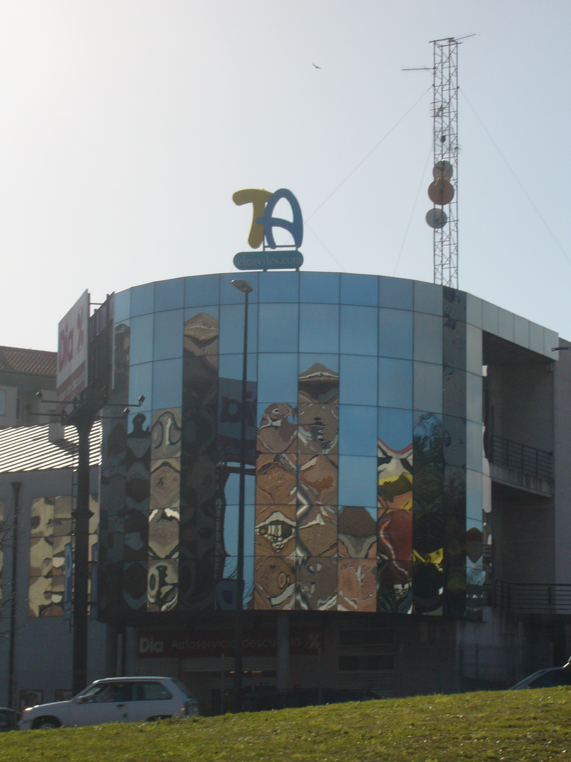 Teleaviles' headquarters (Asturian television channel - Spain)